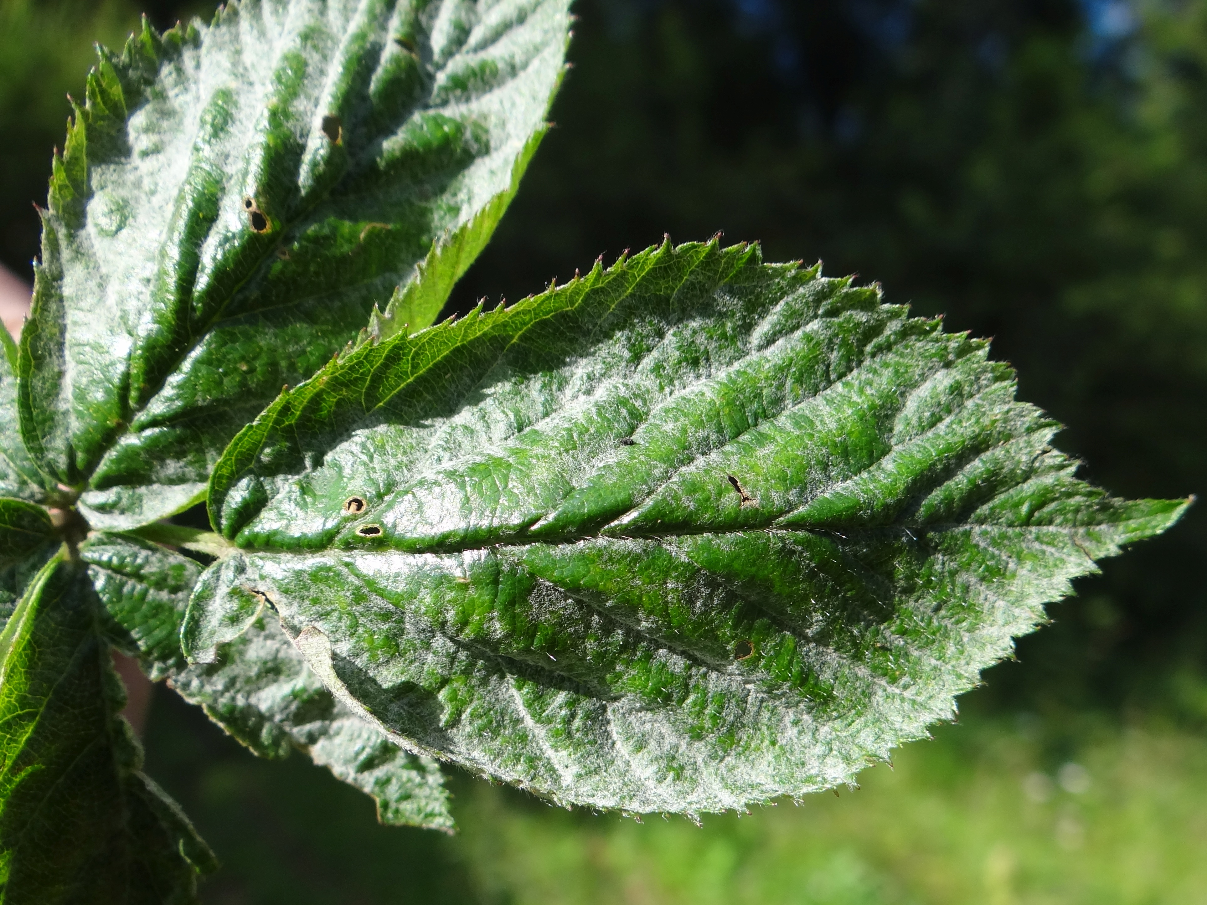 Podosphaera macularis on Rubus idaeus (location: Poland, Beskid Wyspowy, Ćwilin